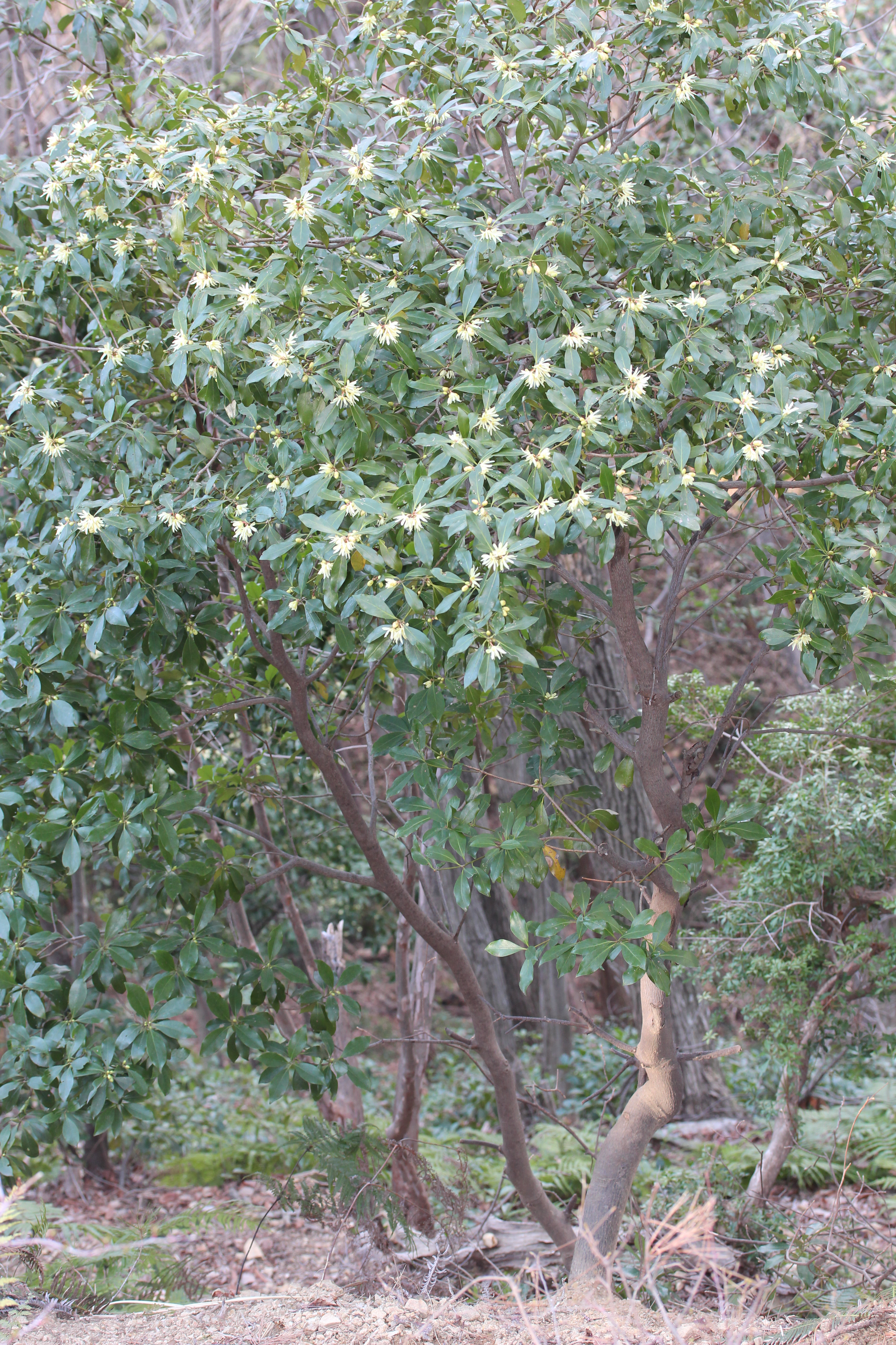 Illicium anisatum in Yoro Mountains, Kaizu, Gifu Prefecture, Japan.